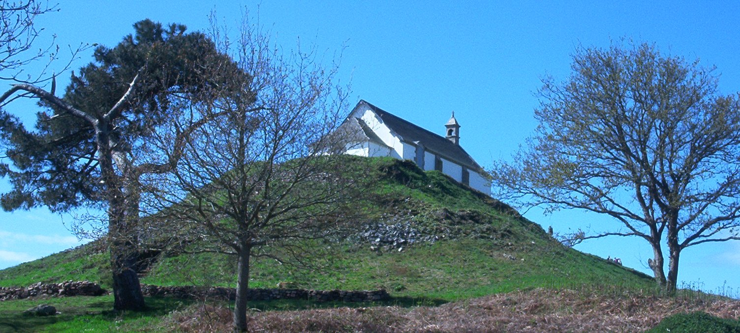 A chapel built on the Tumulus Saint-Michel in Carnac (France).